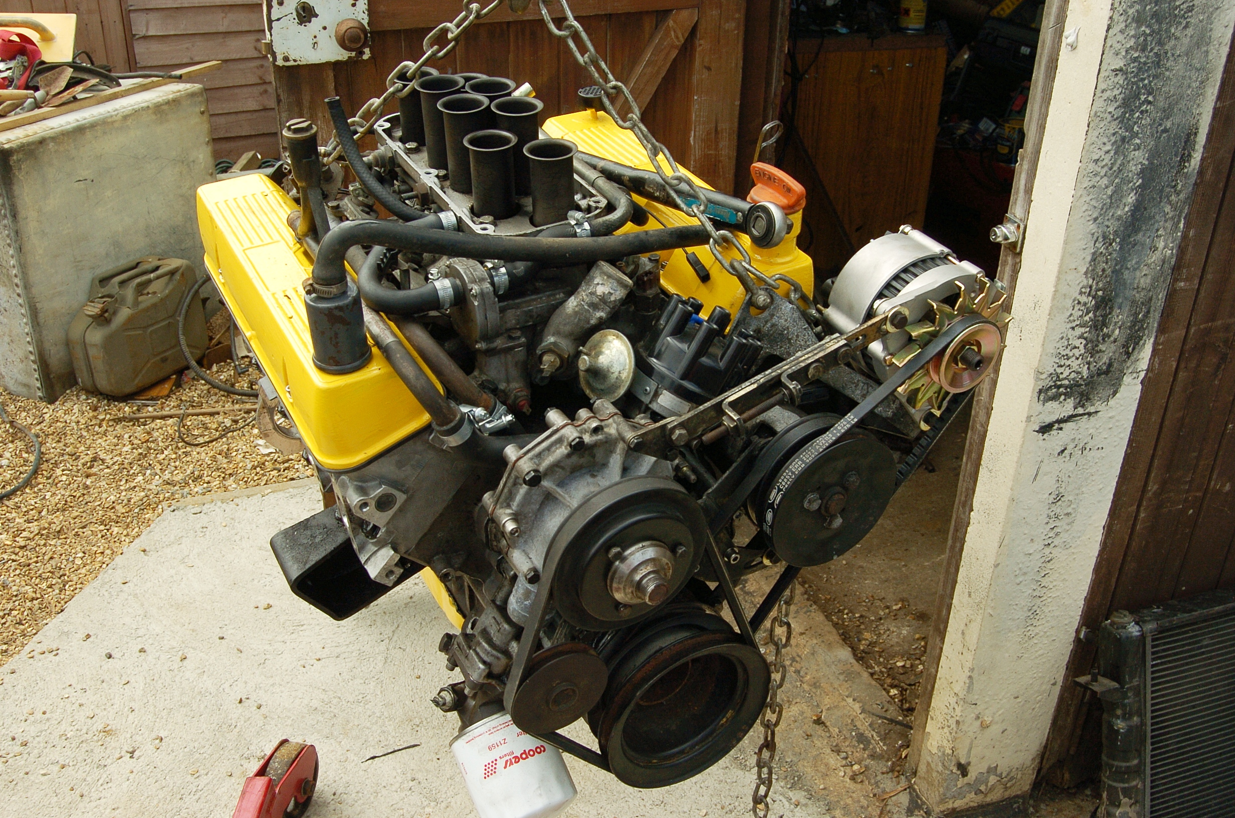 A 3.5-litre Rover V8 engine from a 1986 Range Rover, with non-standard yellow-painted sump and rocker covers.